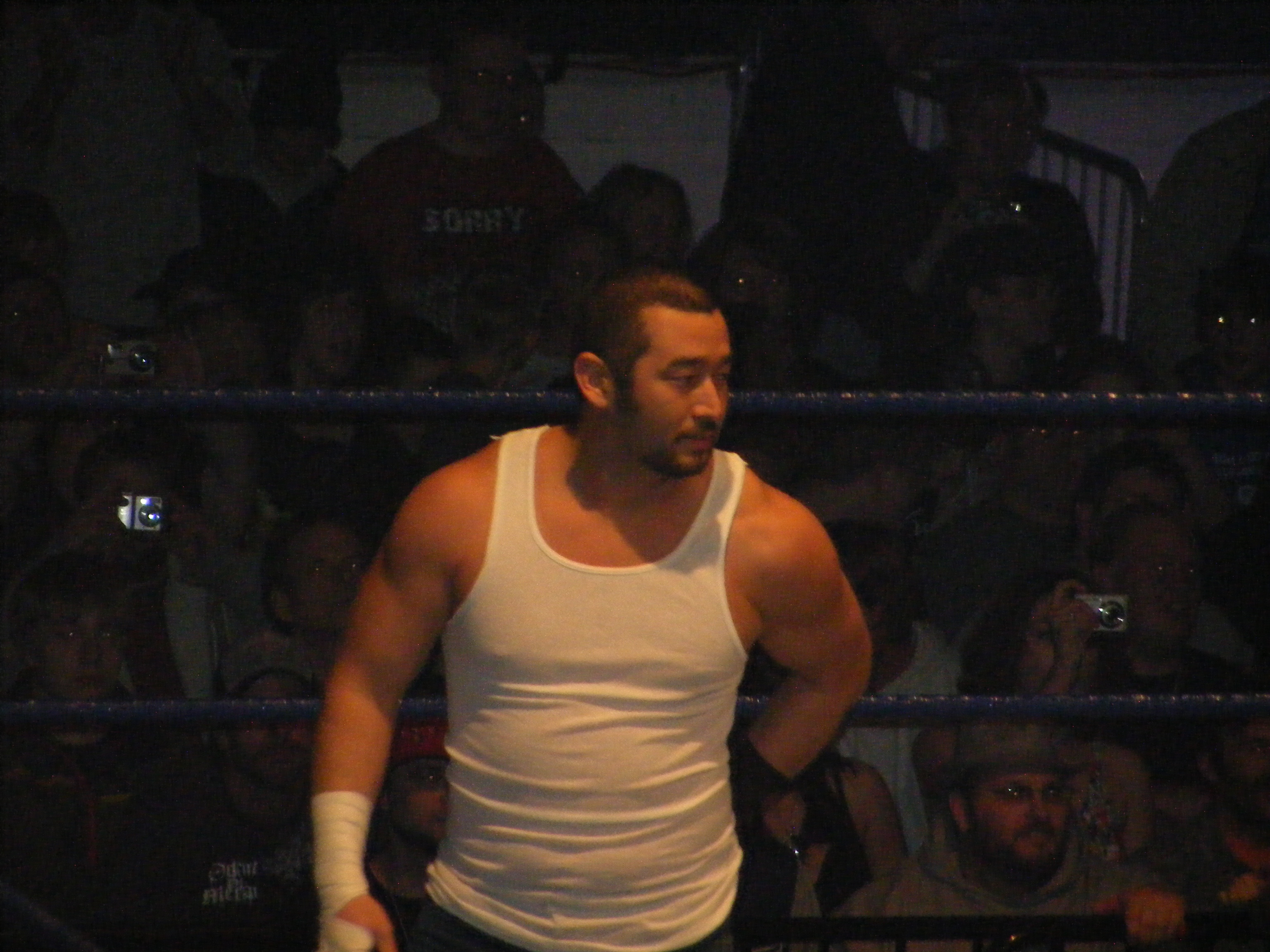 Professional wrestler James Yun as Jimmy Wang Yang at a WWE show in February 2009